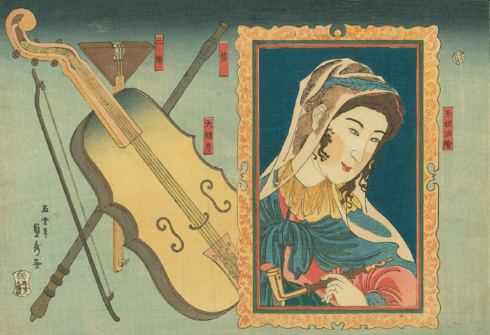 yokohama-e by Utagawa Sadahide, female foreigner and instruments